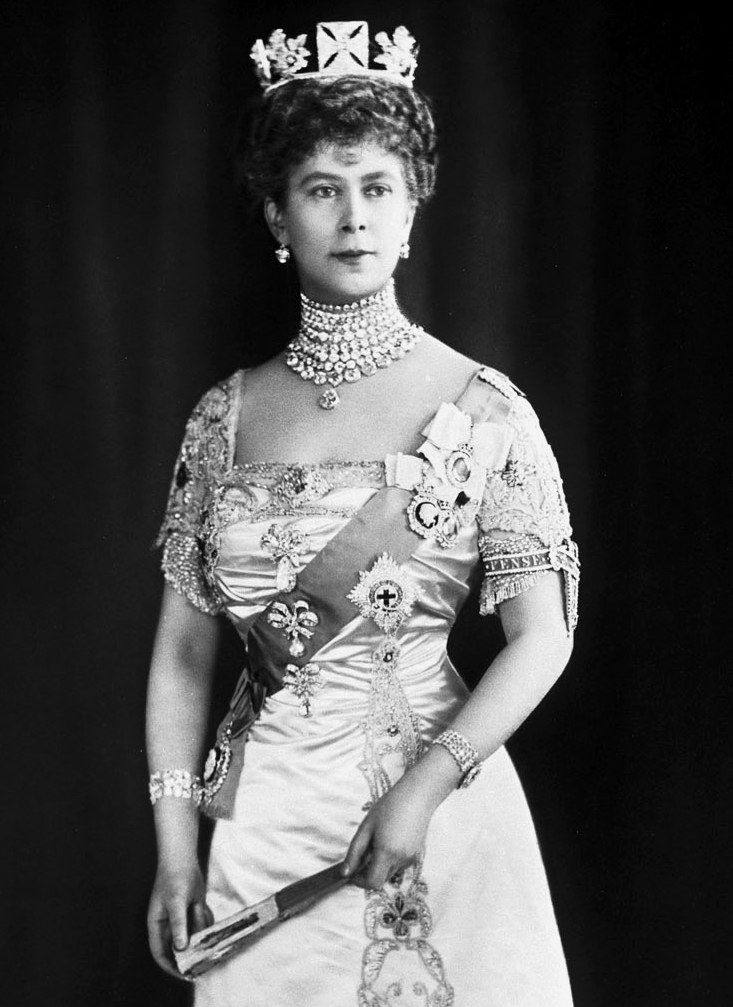 Portrait Photograph of Queen Mary (1867-1953), spouse of King George V of the United Kingdom